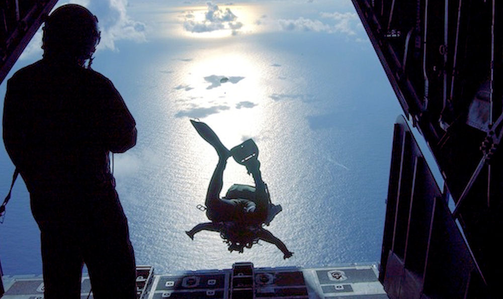 Pararescue specialists jumping out of the C-130. (Courtesy Photo: USAF ANG 106)